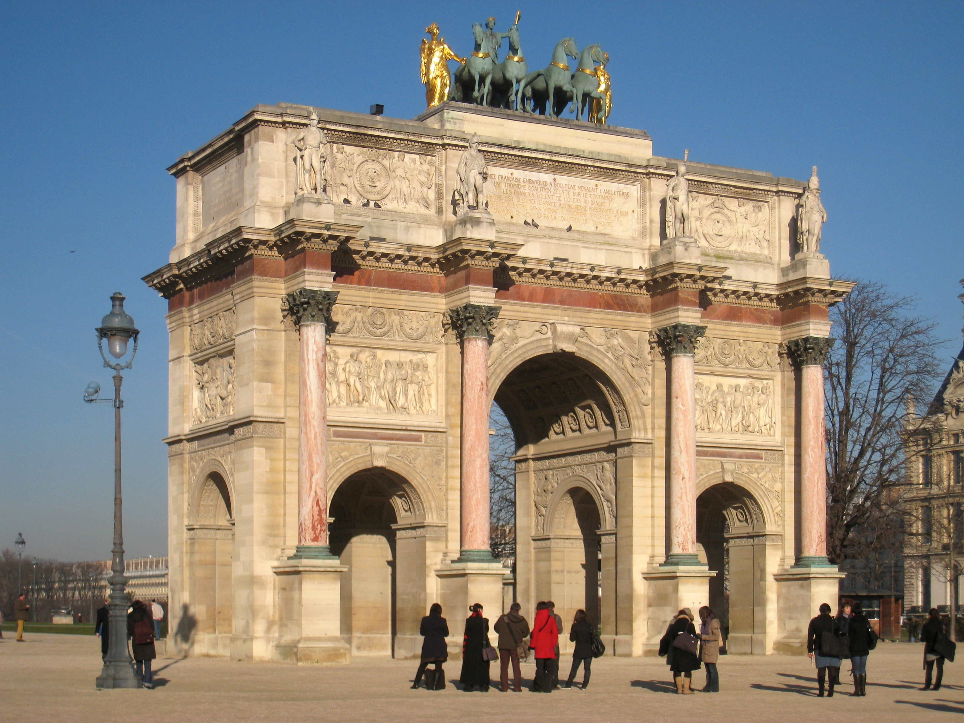 Arc de Triomphe du Carrousel, Paris, France. Architects Percier and Fontaine, built 1806-1808 by Napoleon.